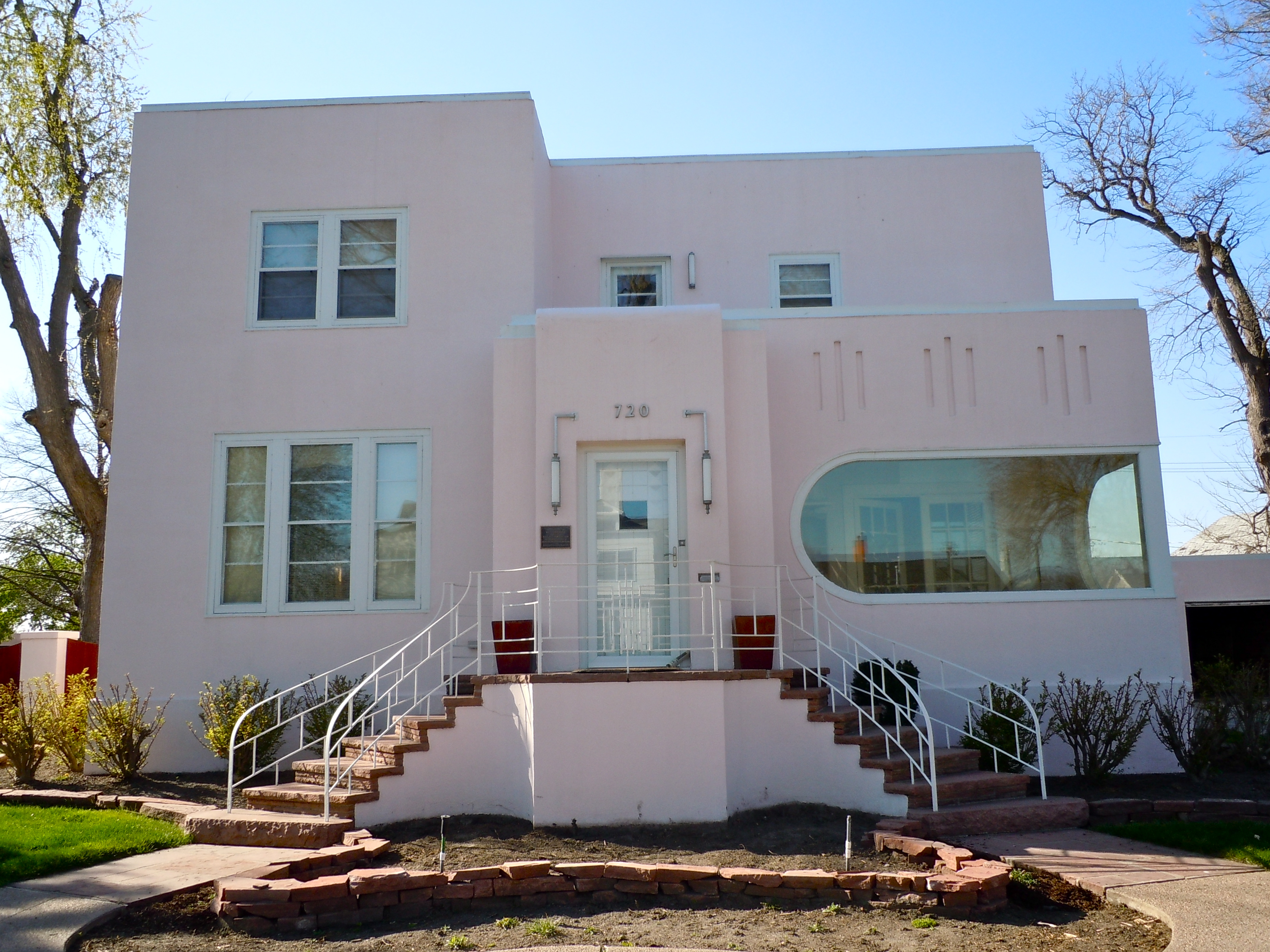 H.J. Bartenbach House on the NRHP since December 8, 1986. At 720 W. Division, Grand Island, Nebraska (Hall County).